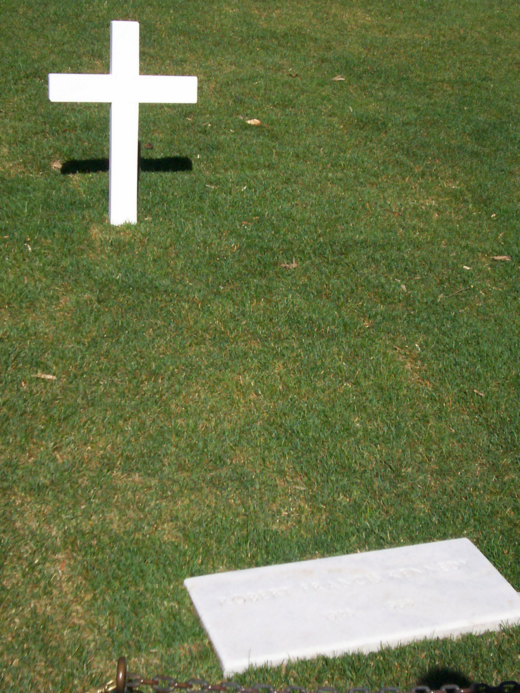 cruz y tumba de RFK en arlington washington dc Robert Kennedy